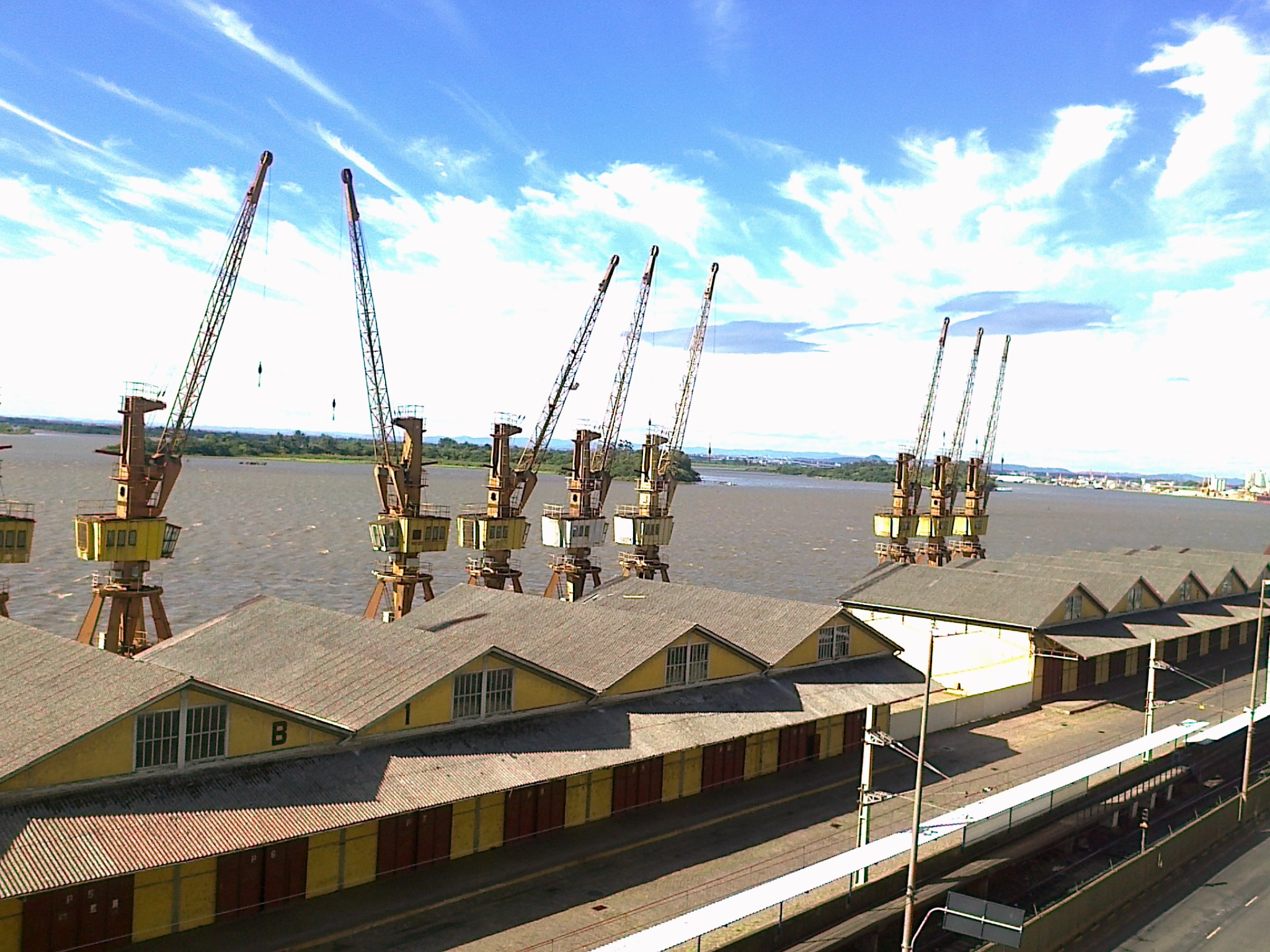 View of Porto harbor in the city of Porto Alegre, capital of the state of Rio Grande do Sul, Brazil, downtown district.